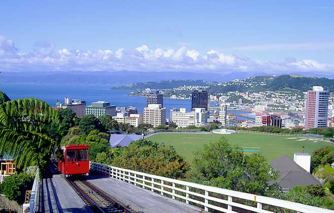 Wellington, New Zealand